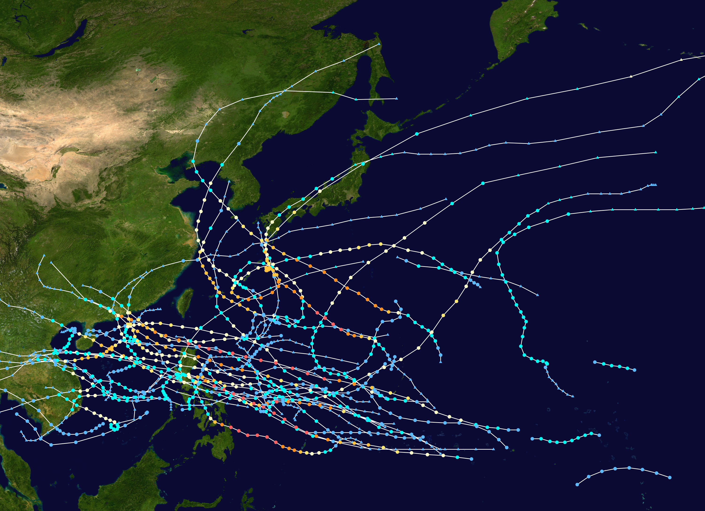 This map shows the tracks of all tropical cyclones in the 1964 Pacific typhoon season. The points show the location of each storm at 6-hour intervals. The colour represents the storm's maximum sustained wind speeds as classified in the Saffir-Simpson Hurricane Scale (see below), and the shape of the data points represent the nature of the storm. Saffir–Simpson hurricane wind scale Tropical depression≤38 mph≤62 km/h Category 3111–129 mph178–208 km/h Tropical storm39–73 mph63–118 km/h Category 4130–156 mph209–251 km/h Category 174–95 mph119–153 km/h Category 5≥157 mph≥252 km/h Category 296–110 mph154–177 km/h Unknown Storm typeTropical cycloneSubtropical cycloneExtratropical cyclone / Remnant low / Tropical disturbance